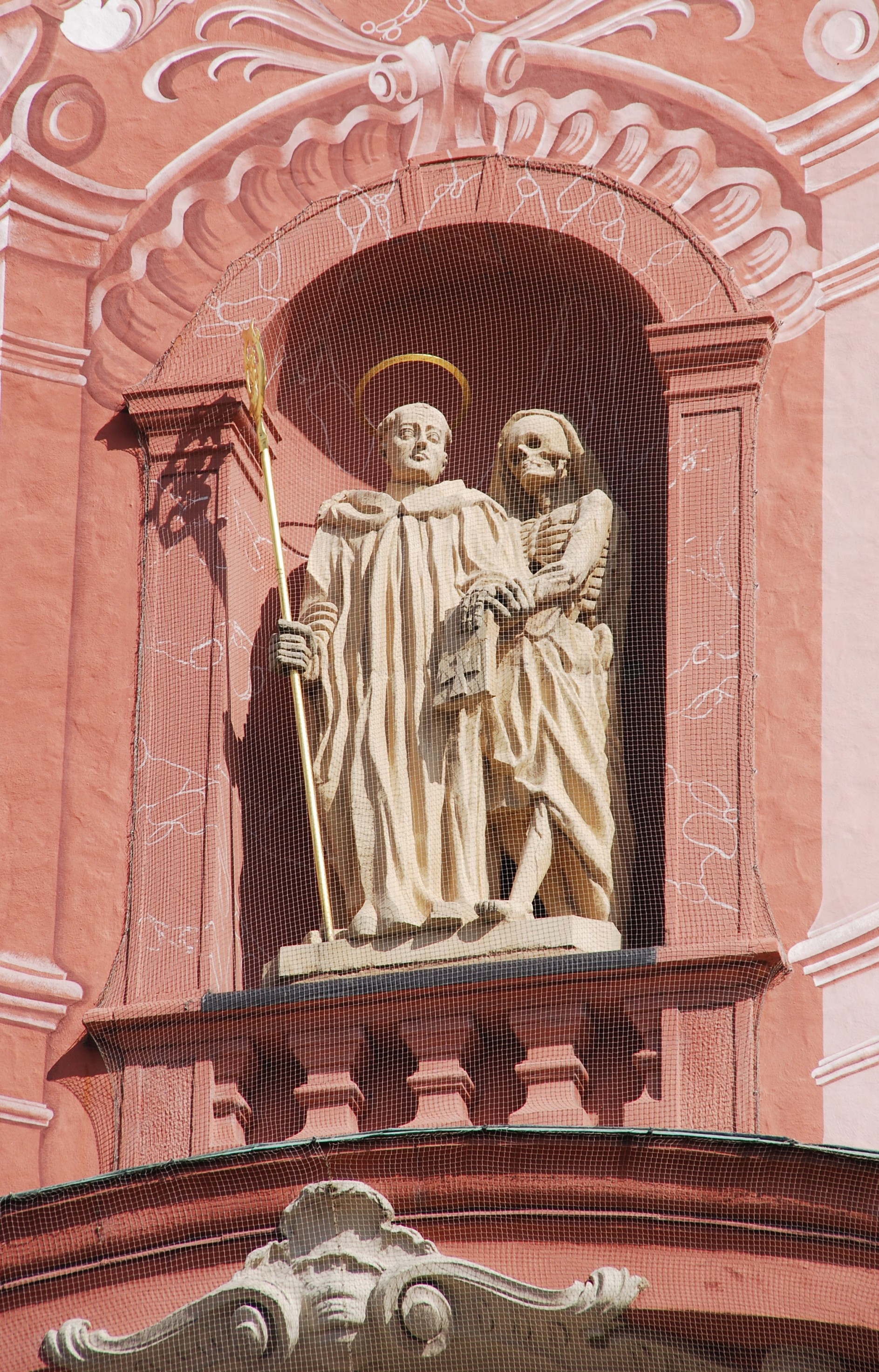 Saint Fridolin and Urso at Fridolin Cathedral in Bad Säckingen